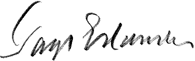 Signature of Tage Erlander